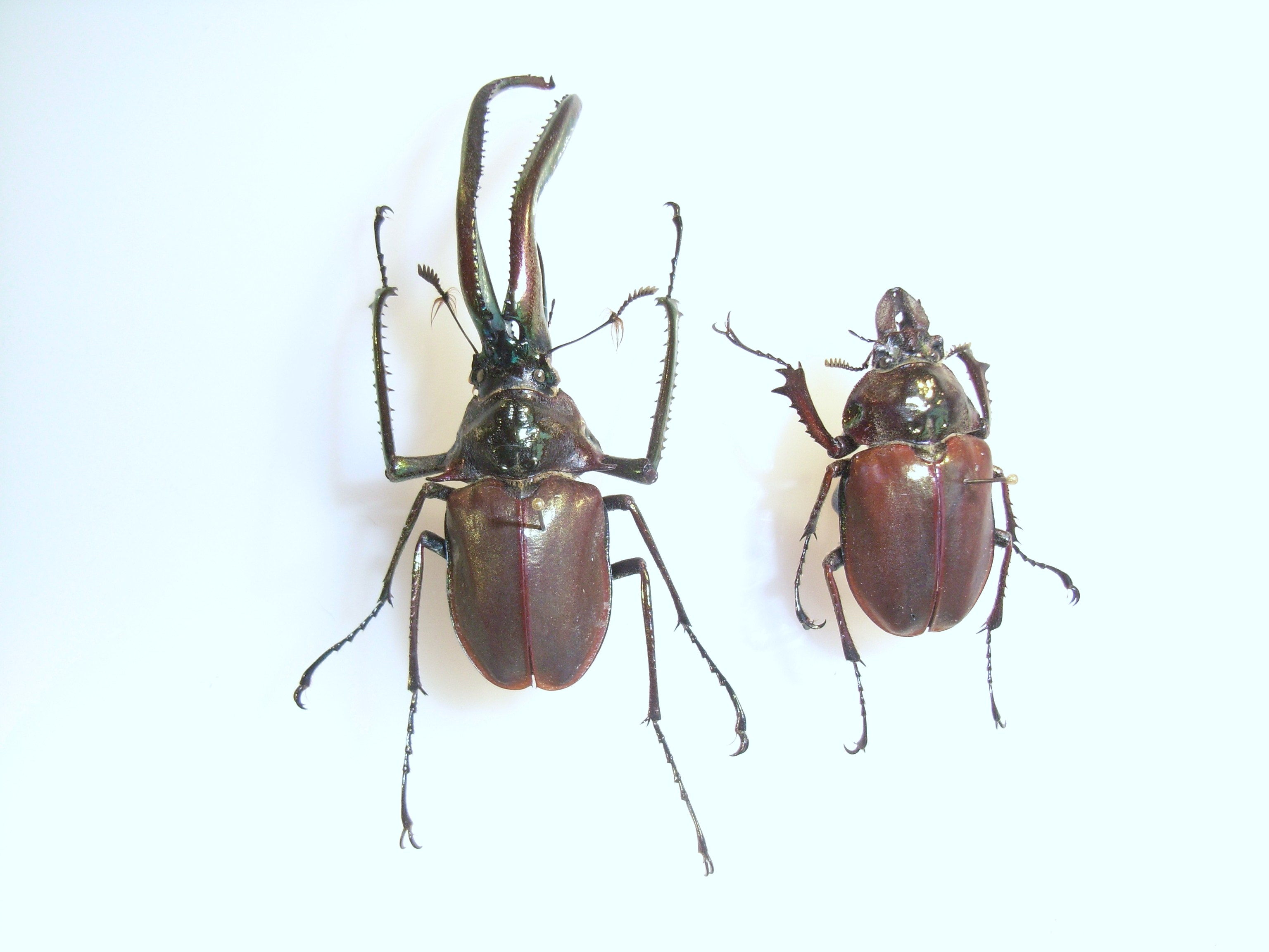 Chiasognathus granti Pair Male left Female right Ex coll. Felix Stumpe